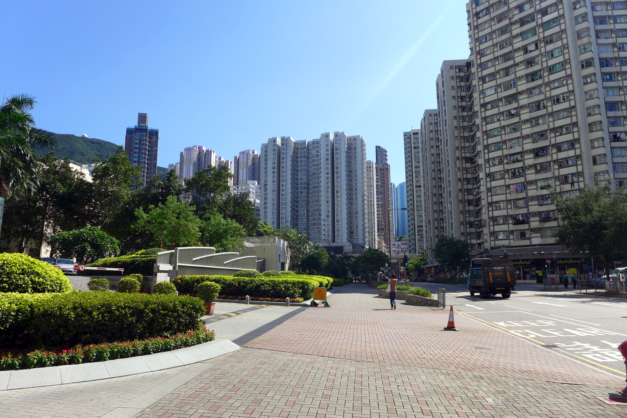 Tai On Street, Sai Wan Ho